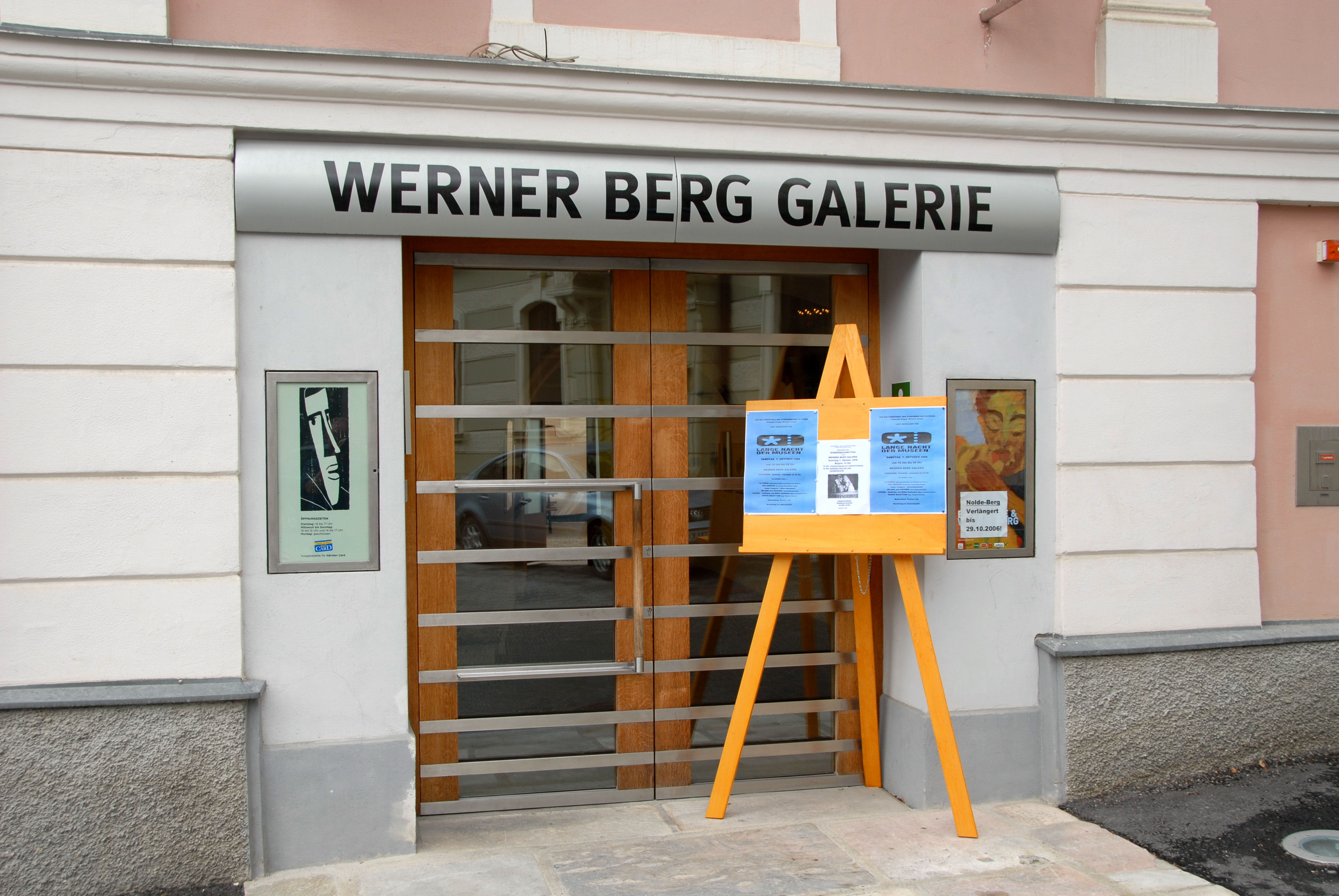 Werner Berg Museum on 10. Oktober Platz #4, municipality Bleiburg, district Voelkermarkt, Carinthia, Austria, EU